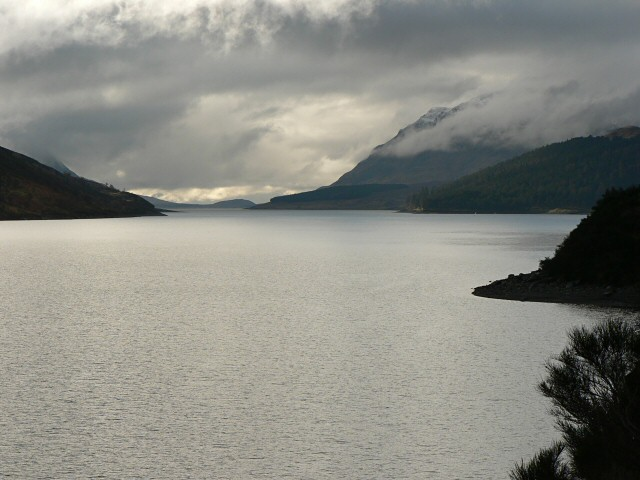 Loch Ericht. Looking south-west along the length of the loch.